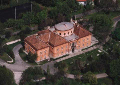 Várpalota, Hungary, aerialphotgraphy